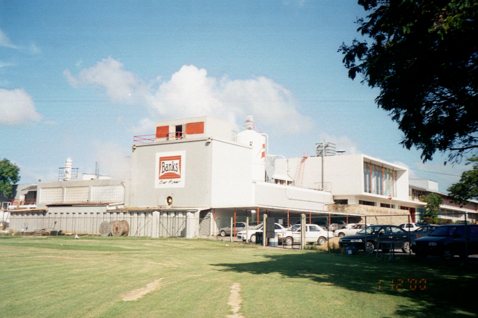 The Banks Beer Brewery located at Wildey Main Road St. Michael, Barbados. (c.a. November 2000)